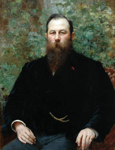 Portrait of Samson Fox (1838-1903), Mercer Art Gallery, Harrogate, Artist Bukovac, Vlaho